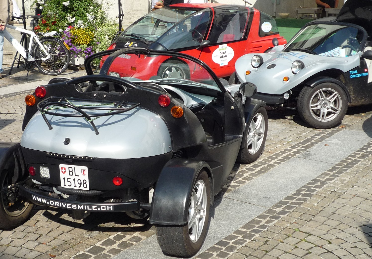 Smile and Sport I at WAVE 2011